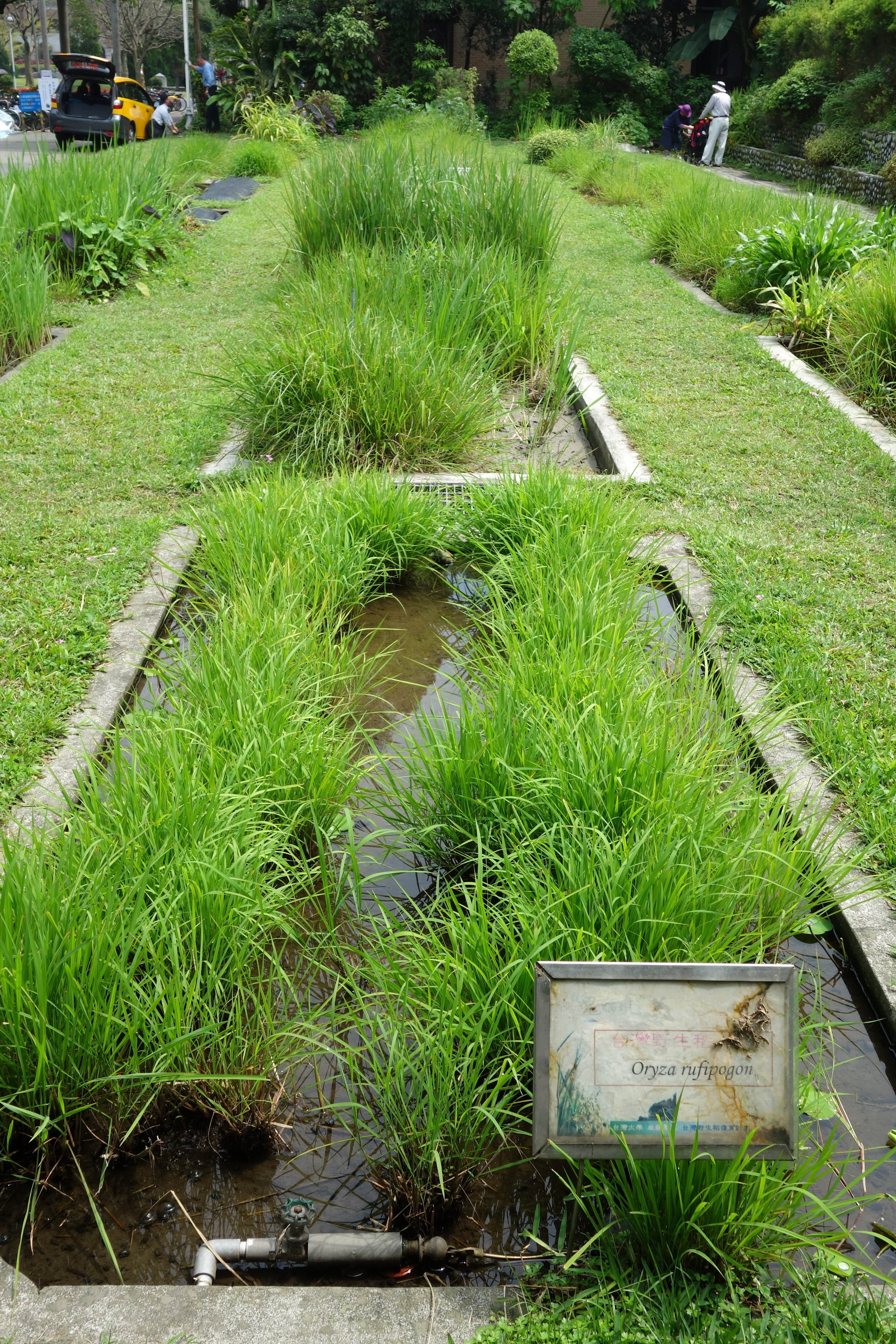 Plants in National Taiwan University, Taipei, Taiwan.